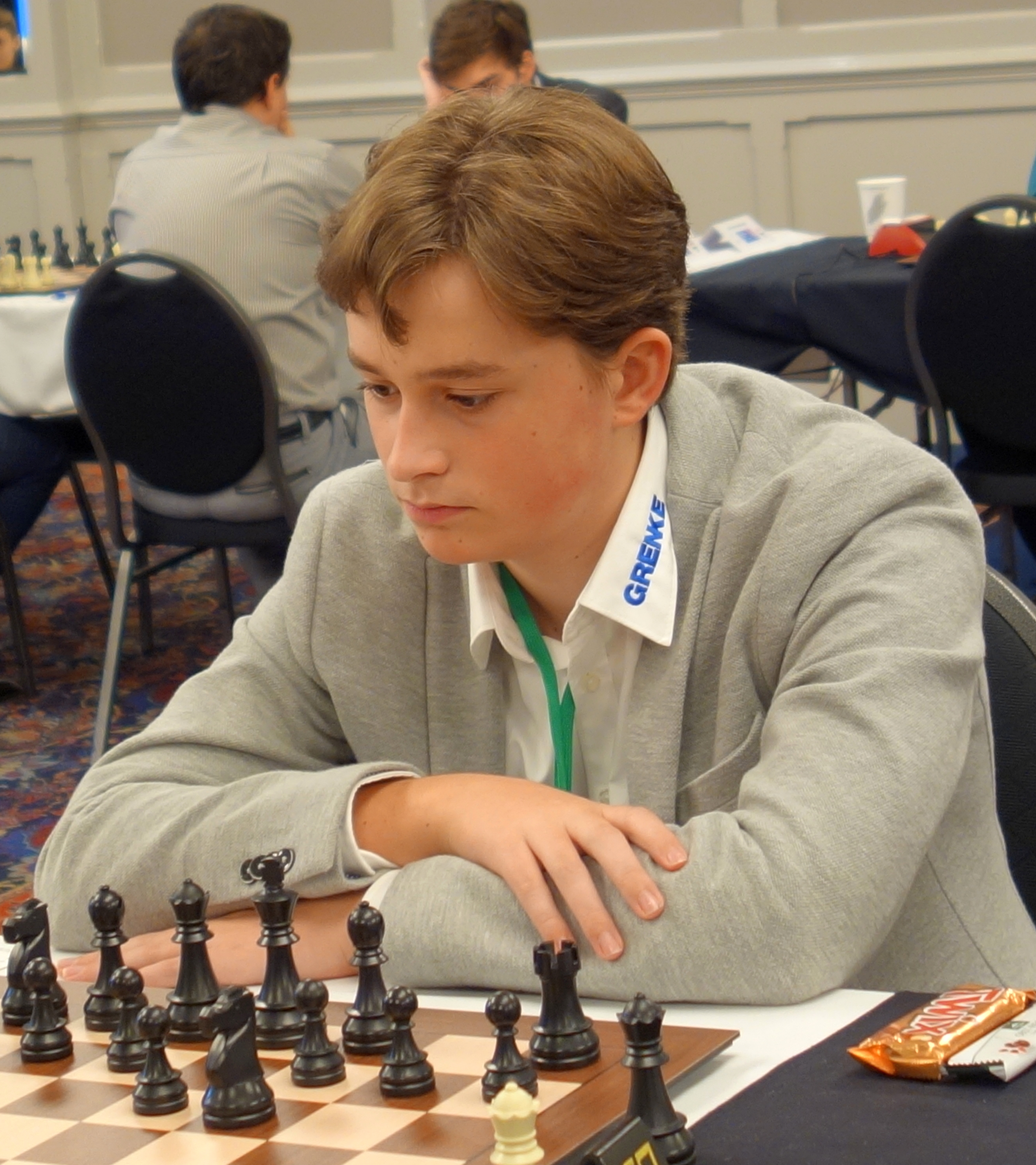 Vincent Keymer, chess grandmaster from Germany, 2019